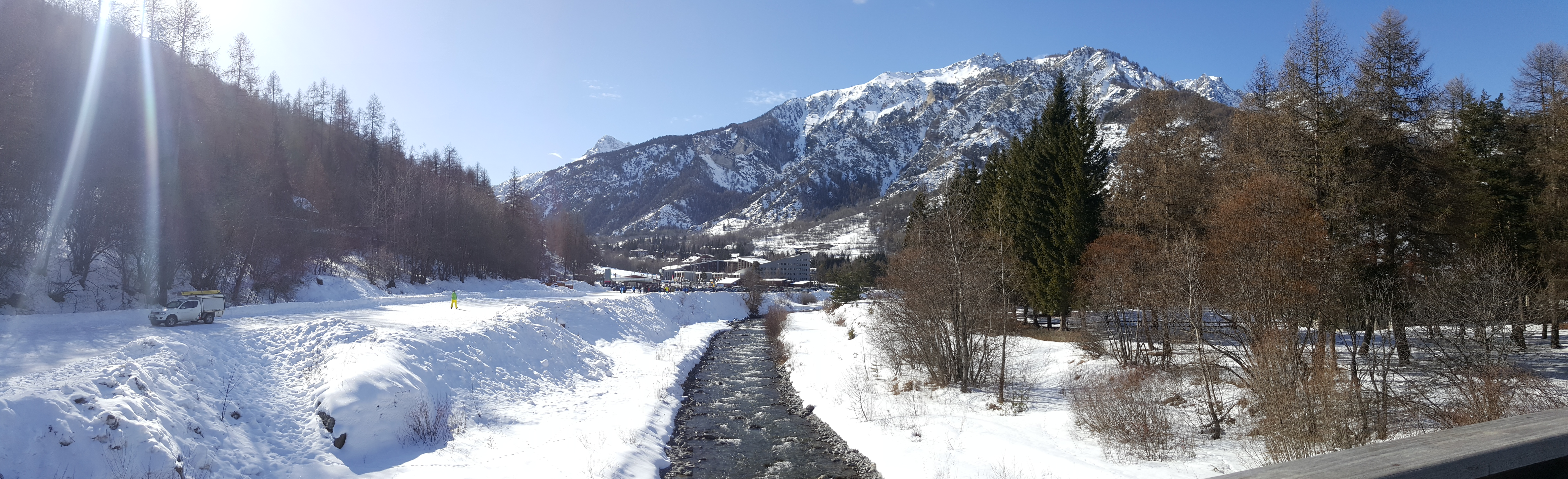 Bardonecchia, Piemonte